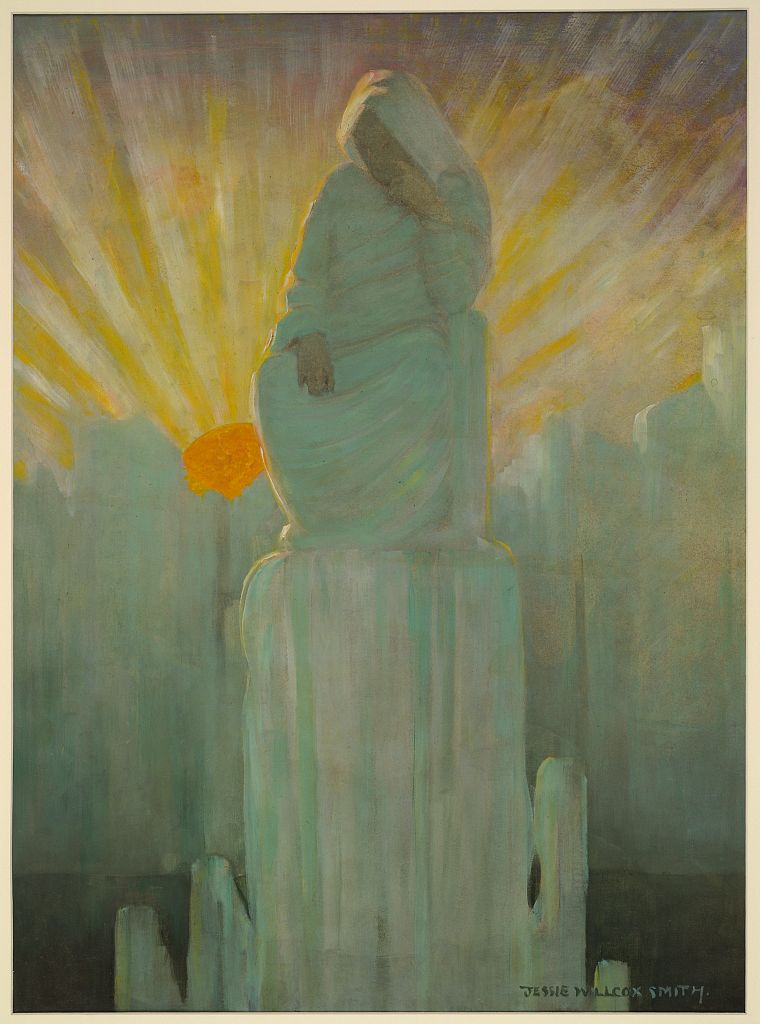 Mother Carey. "It took the form of the greatest old lady he had ever seen." Illustration for Charles Kingsley's The Water Babies (New York : Dodd, Mead & Co., 1916), p. 290.